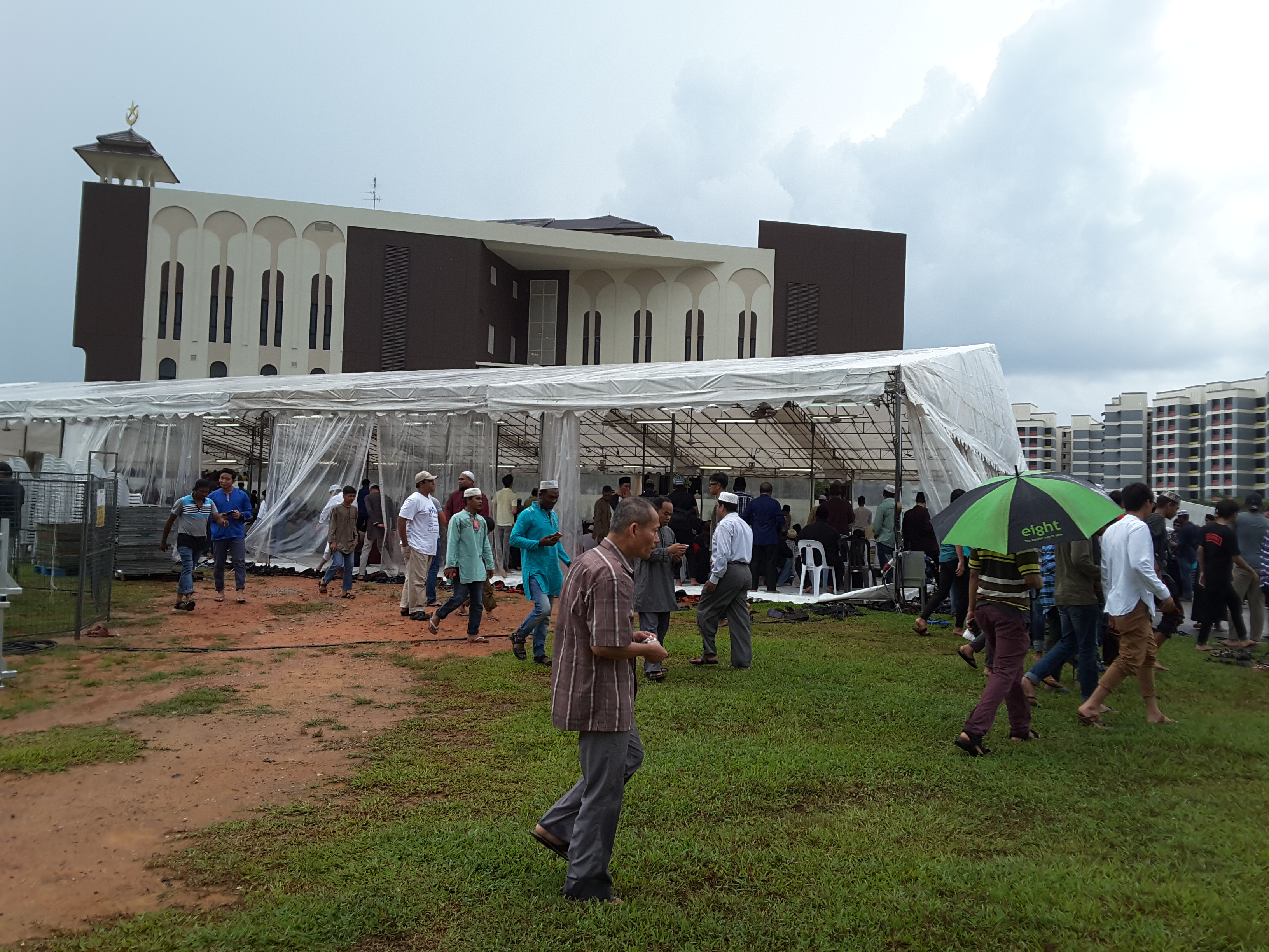 Launch of Masjid Yusof Ishak